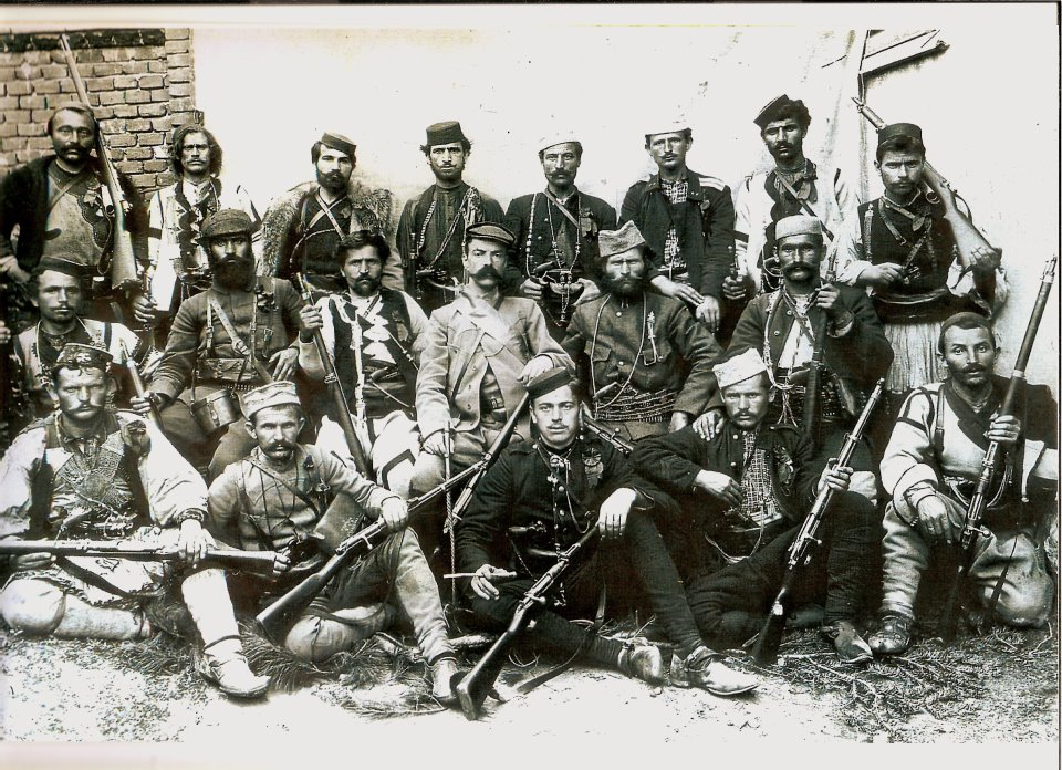 Milan Matov and the Bitola region IMARO voivodas at the time of Yong Turk revolution, 1908